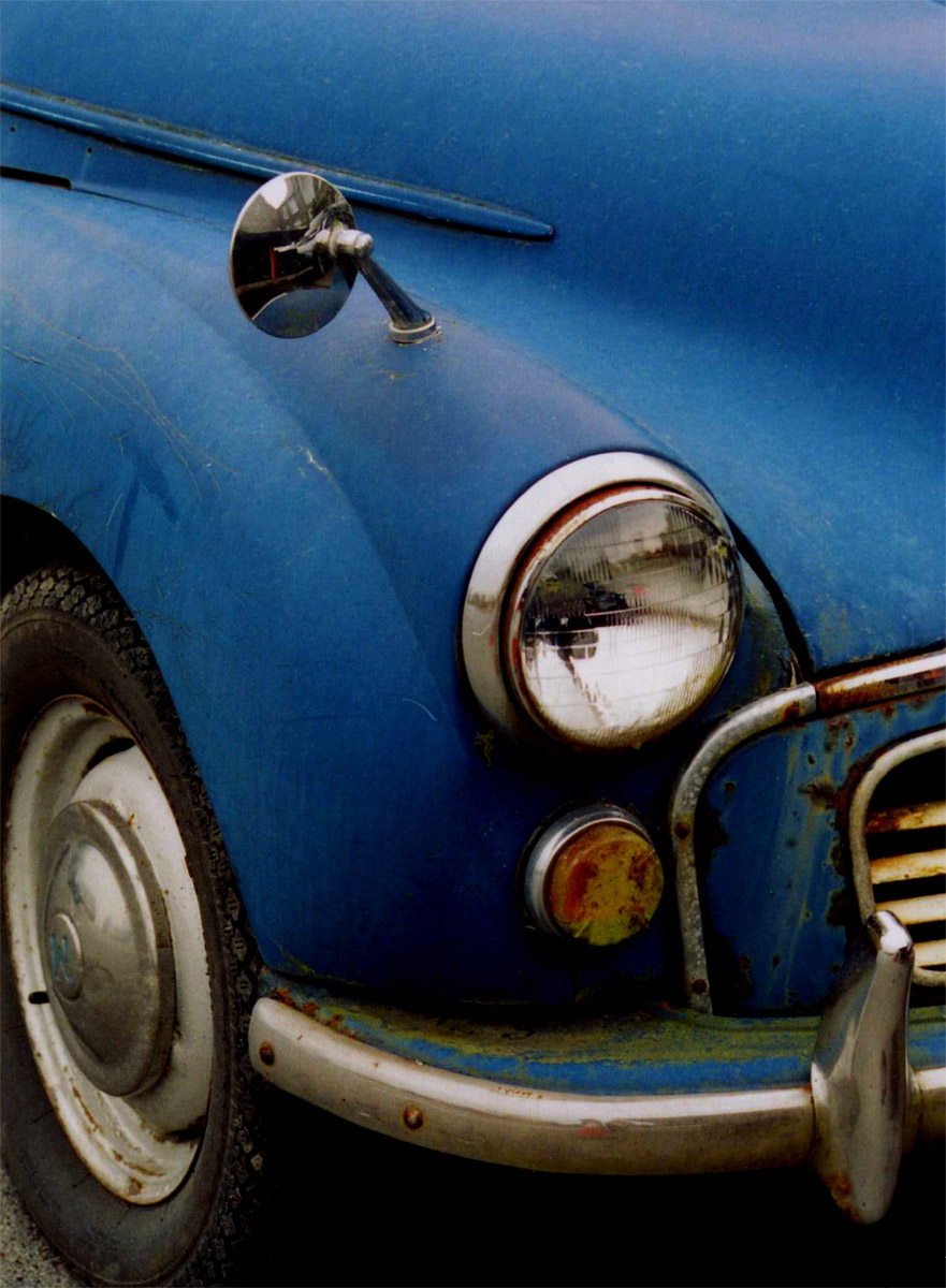 Morris Minor front rightMorris Minor